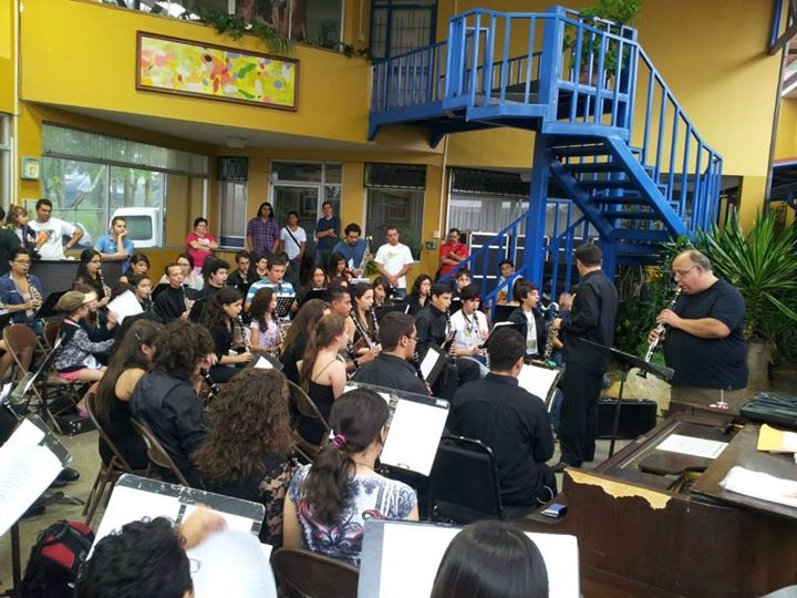 António Saiote teaching clarinet.